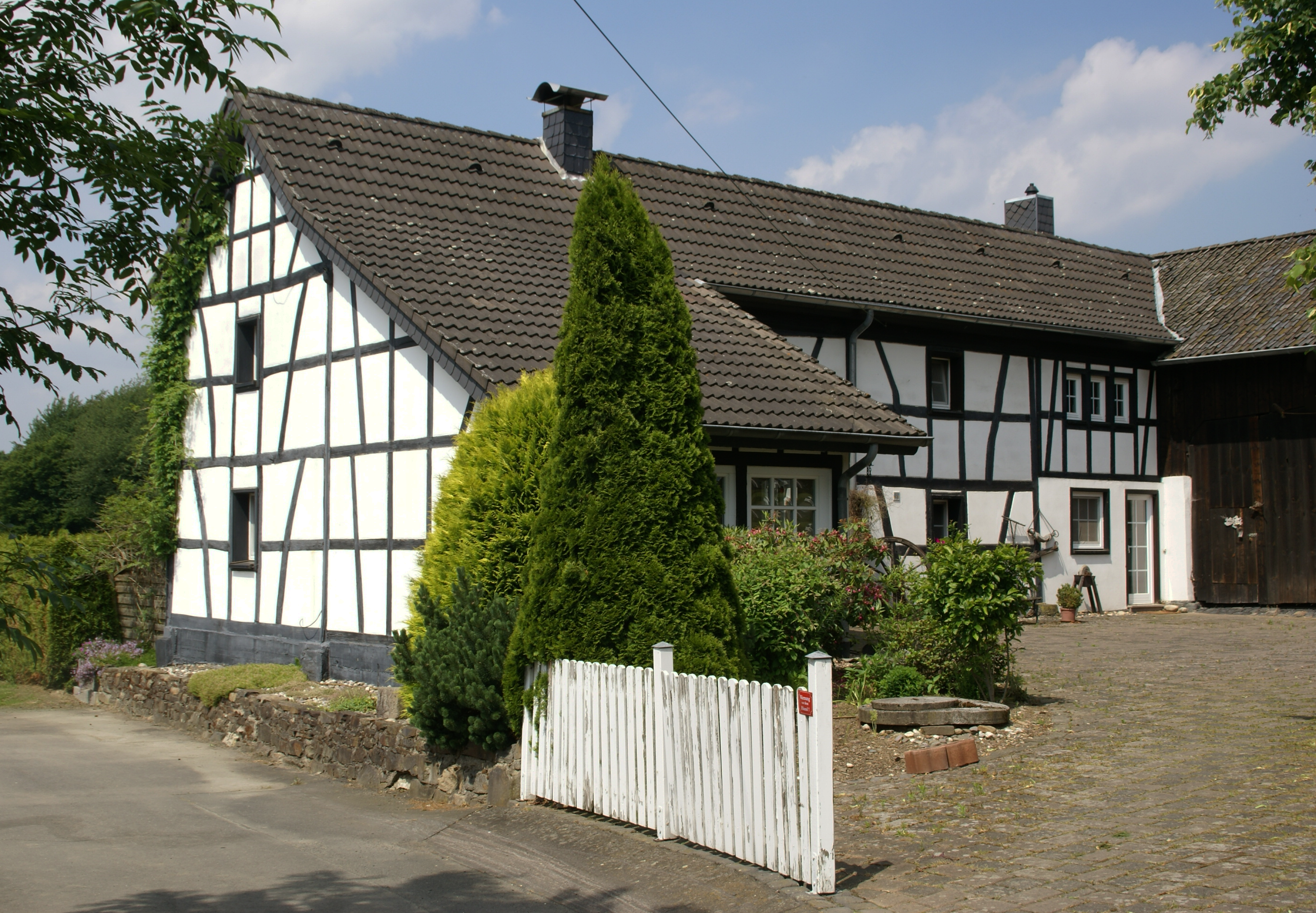 Half-timbered house in Eudenbach-Rostingen, Holzweg 12